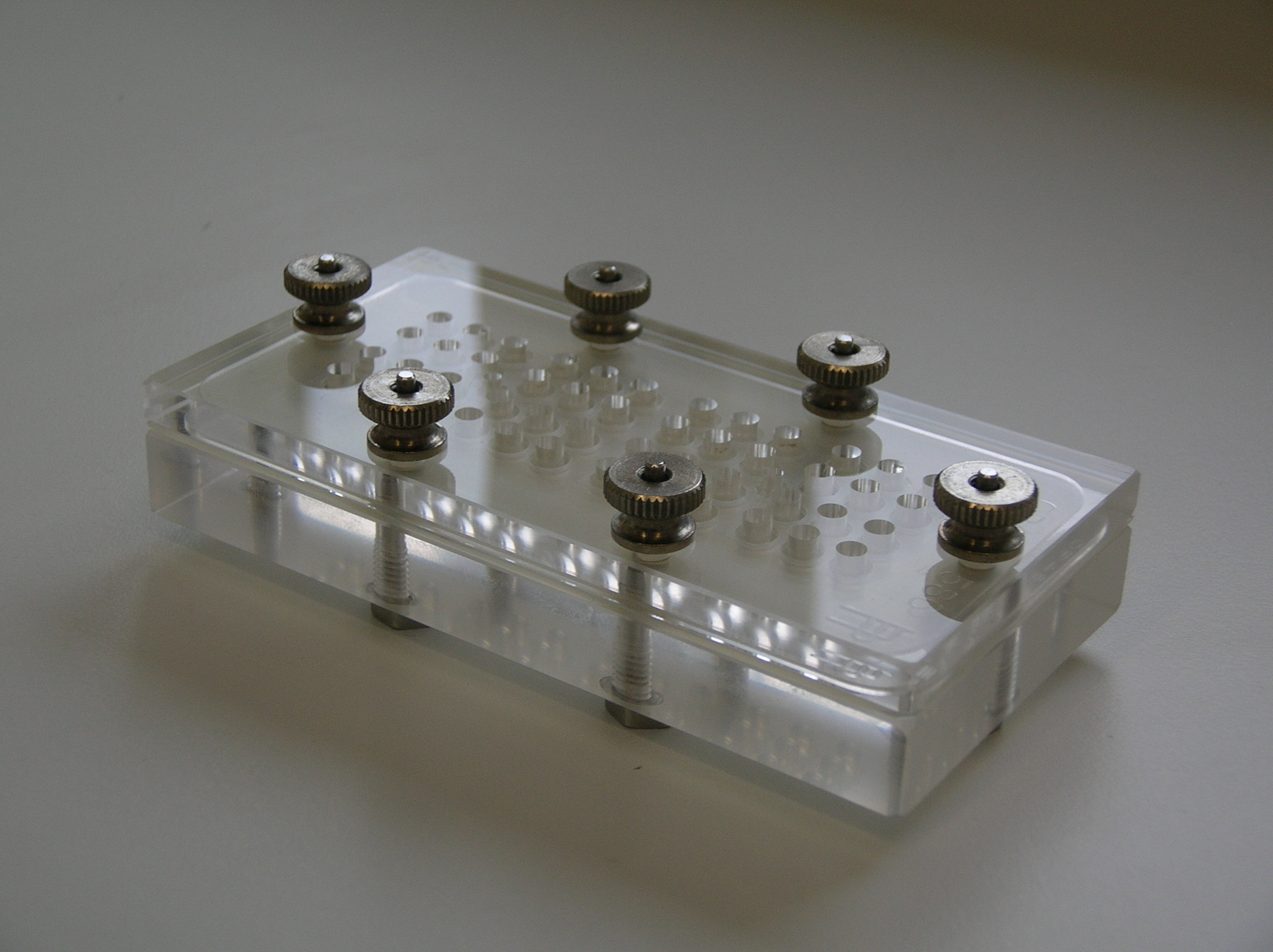 boyden chamber for experiments on chemotaxis of cells